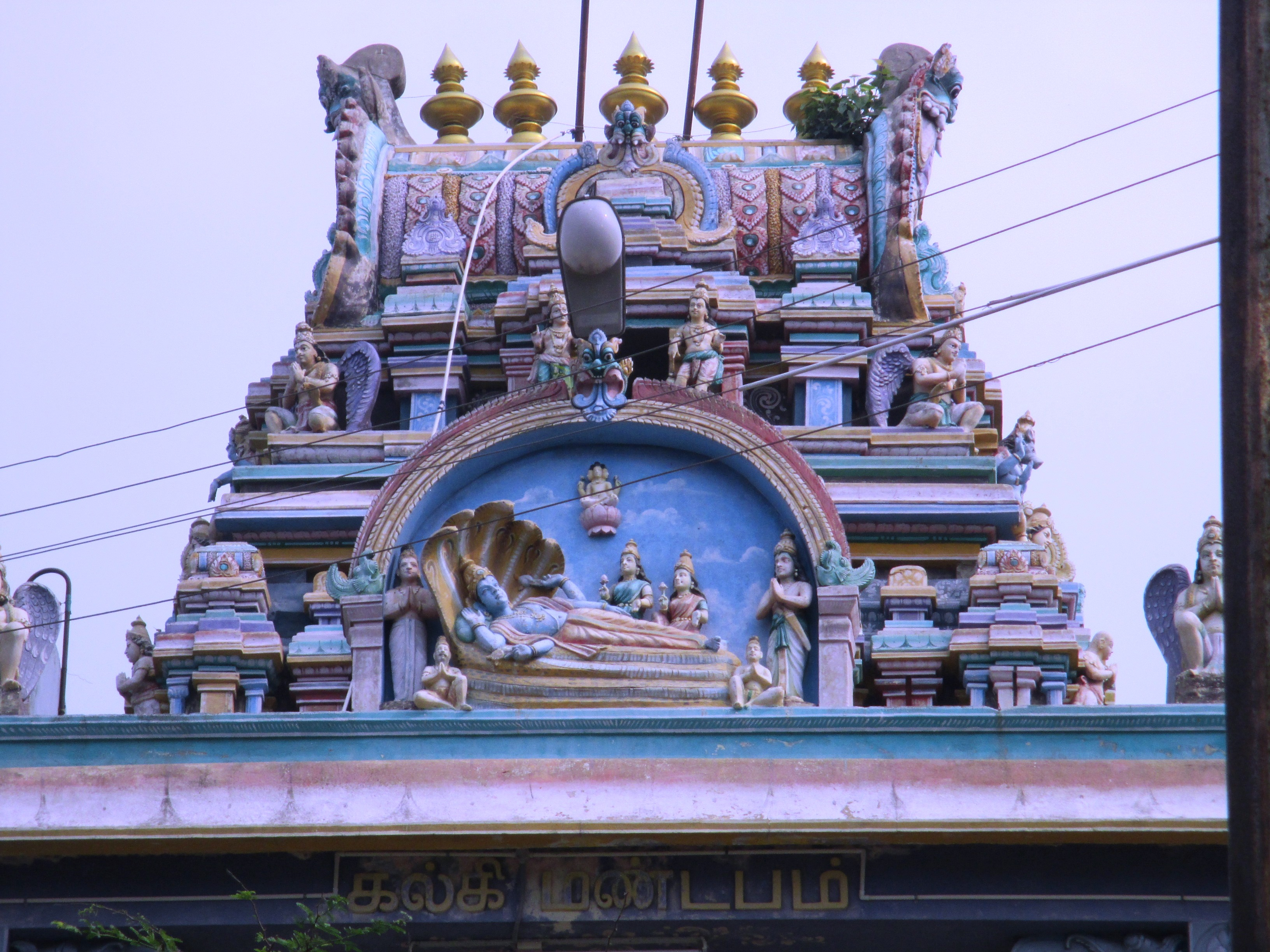 Ranganathar temple, Thiruneermalai